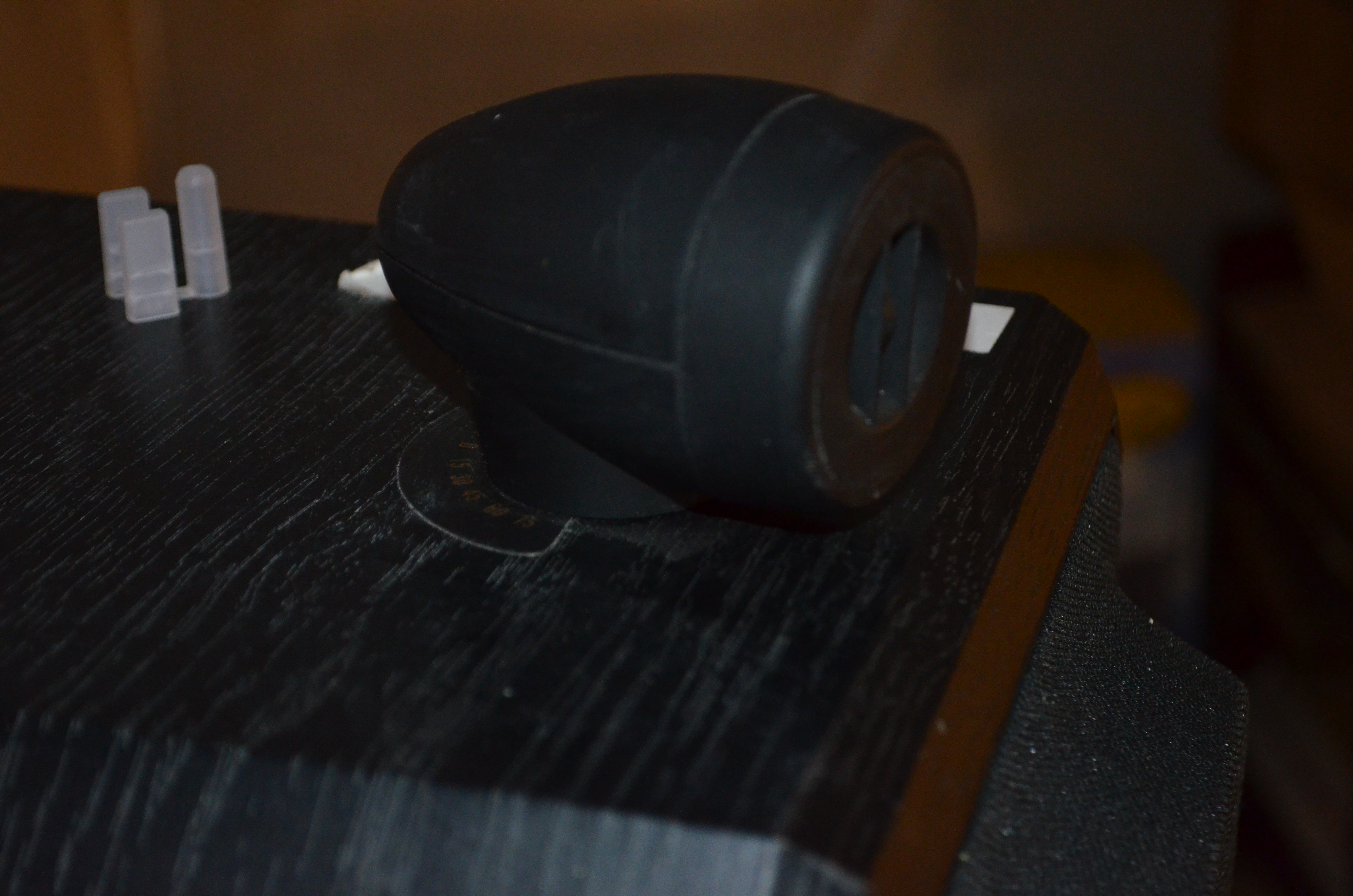 A Tweeter that can swivel and is its own unit, independent from the main baffle.